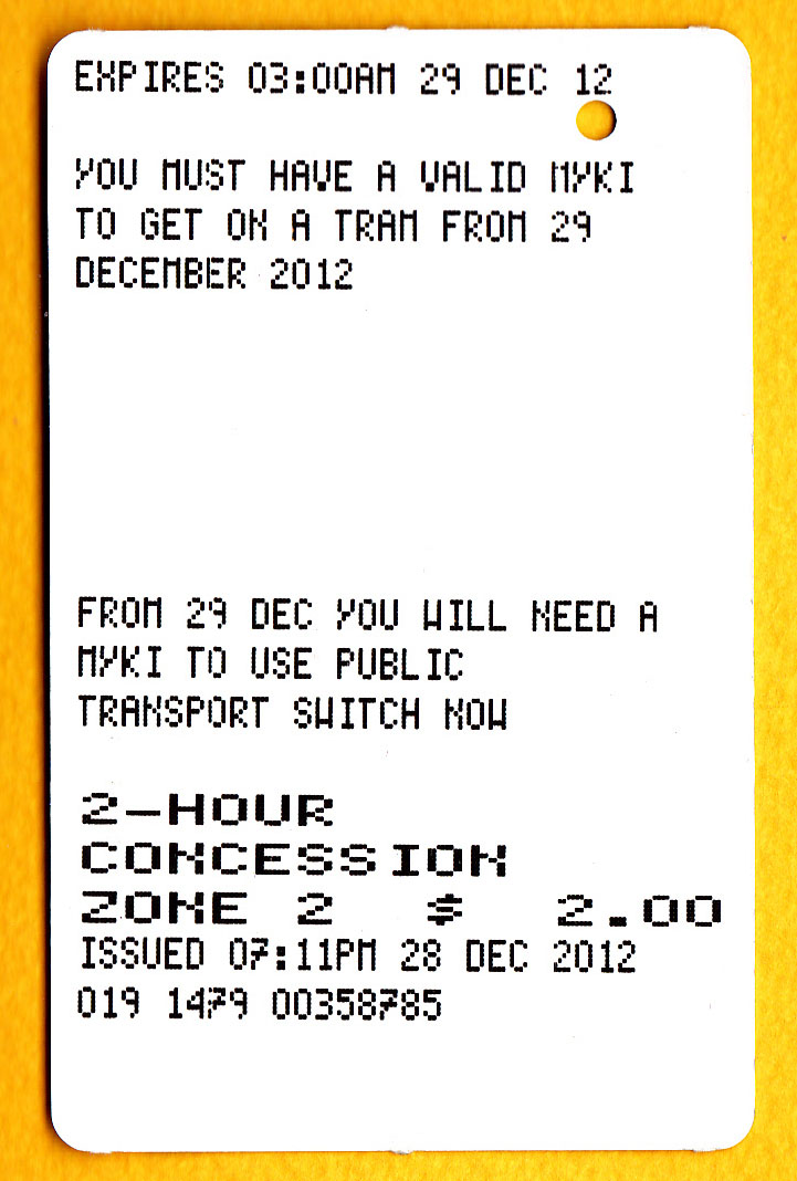 29 December 2012 was the last day Metcard was valid for use in Melbourne, Australia. This ticket was issued from a machine on a tram.